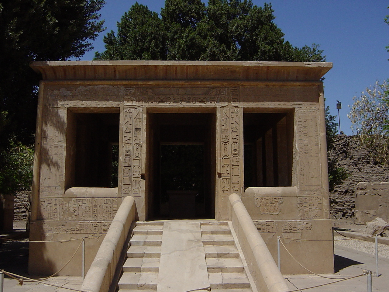 The White Chapel of pharaoh Senusret I in Karnak built for Senusret I to celebrate his 30th regnal year on the throne.